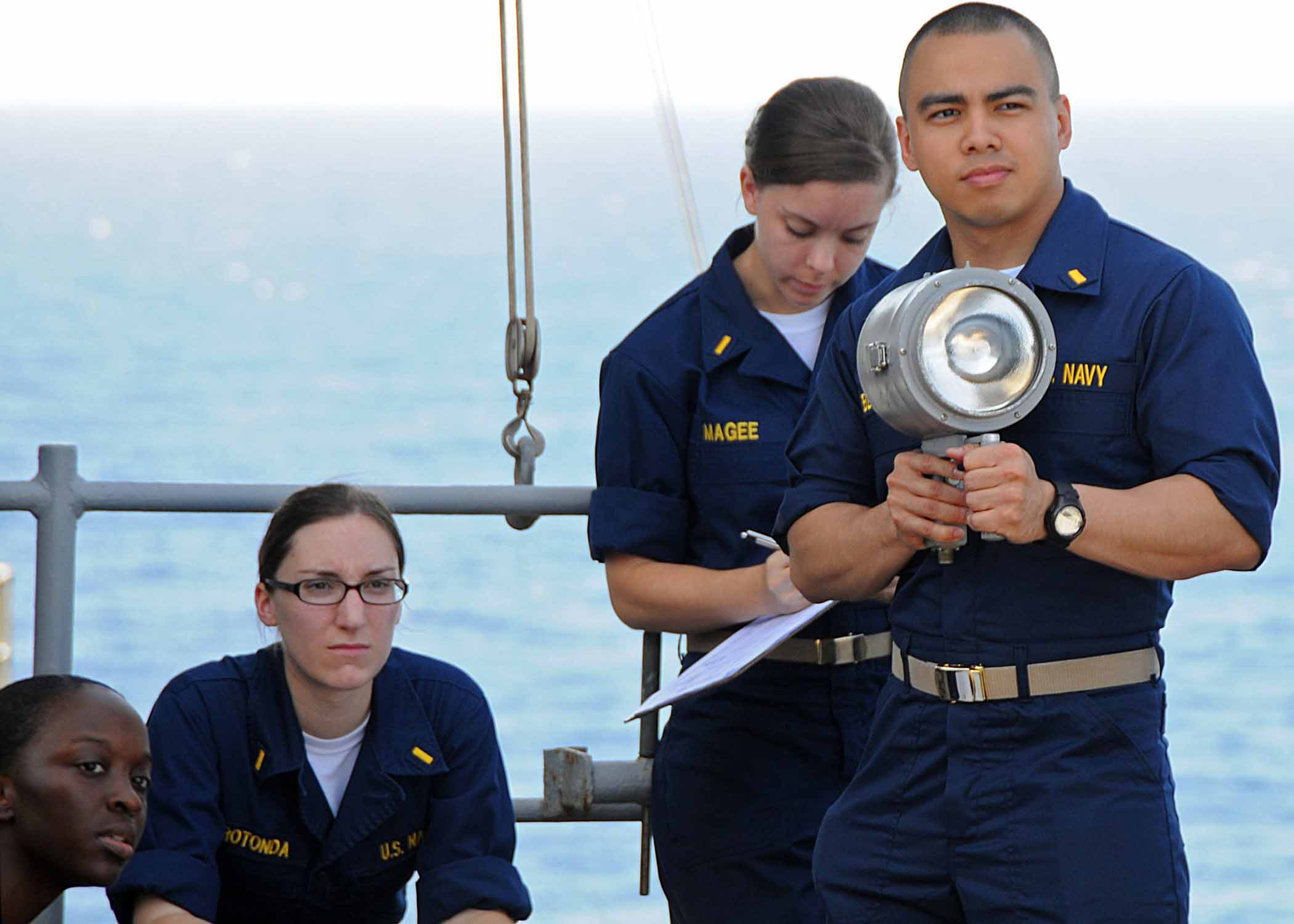 U.S. 5th FLEET AREA OF RESPONSIBILITY (May 10, 2010) Ensign Miguel Bengson, from Baltimore, practices flashing light signals during junior officer training aboard the amphibious dock landing ship USS Ashland (LSD 48). Ashland is part of the Nassau Amphibious Ready Group and is supporting maritime security operations and theater security cooperation operations. (U.S. Navy photo by Mass Communication Specialist 2nd Class Jason R. Zalasky/Released)